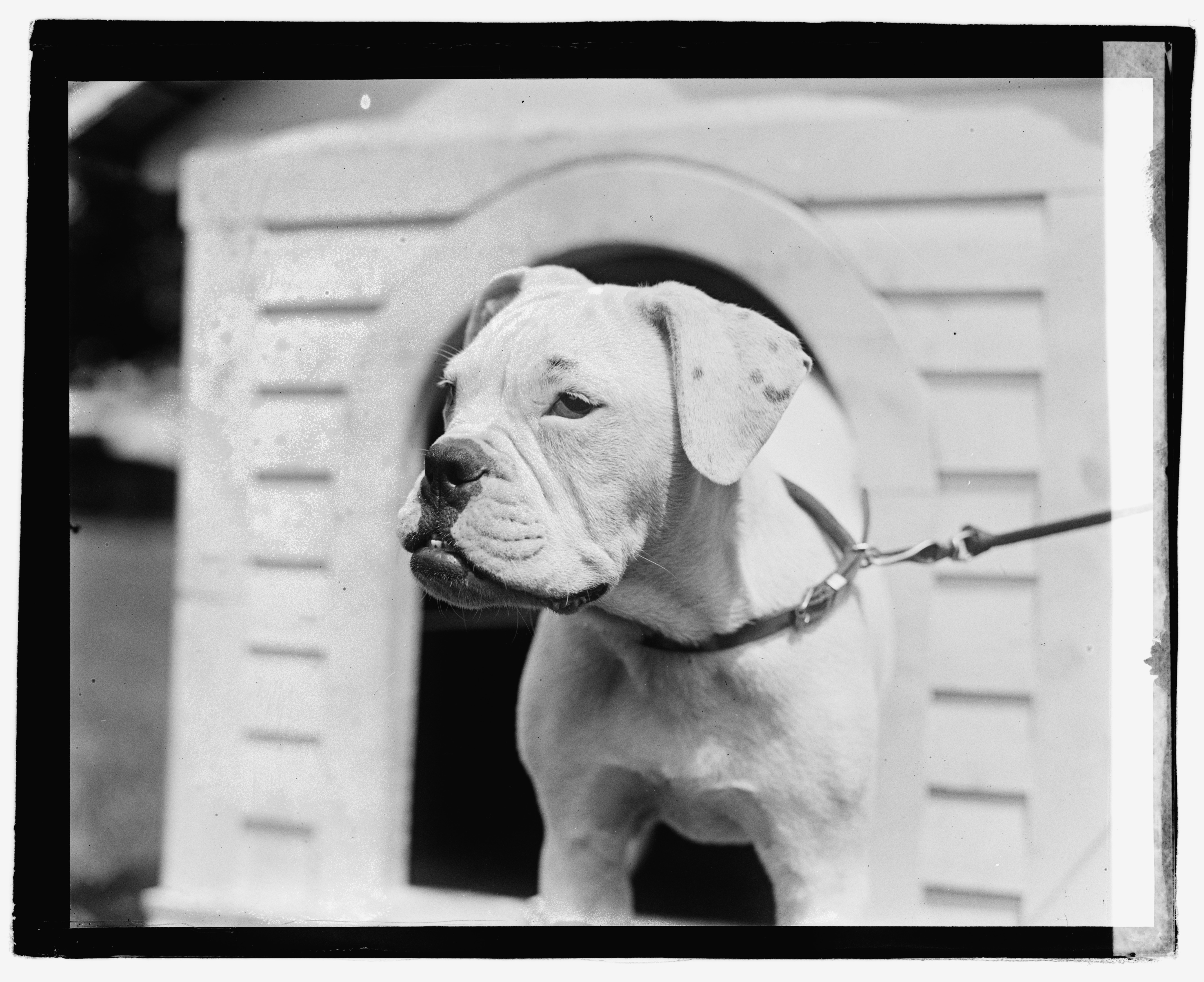 Mrs. Harding's dog O'Boy